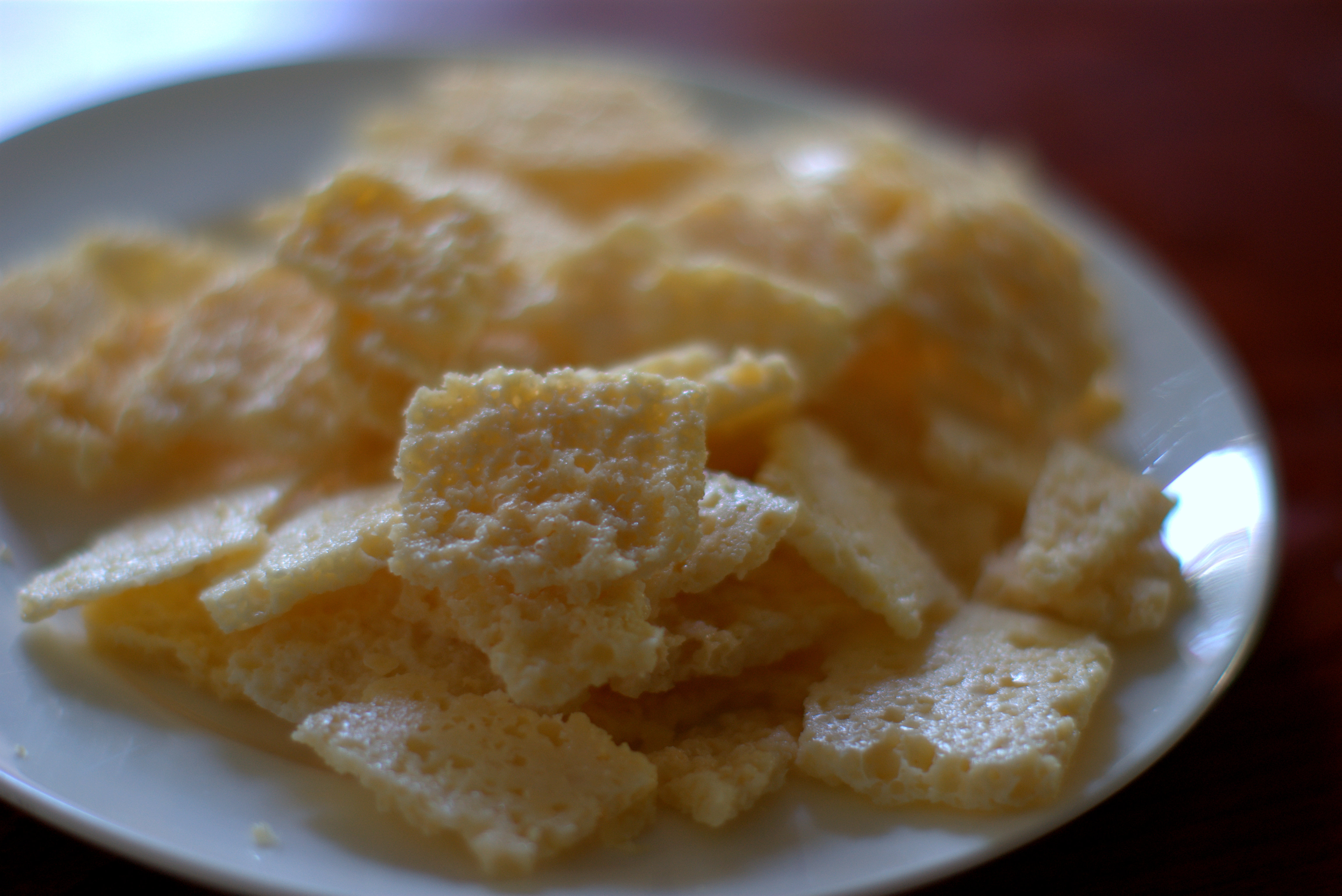 Frico, Italian (Friulian) Food made of cheese